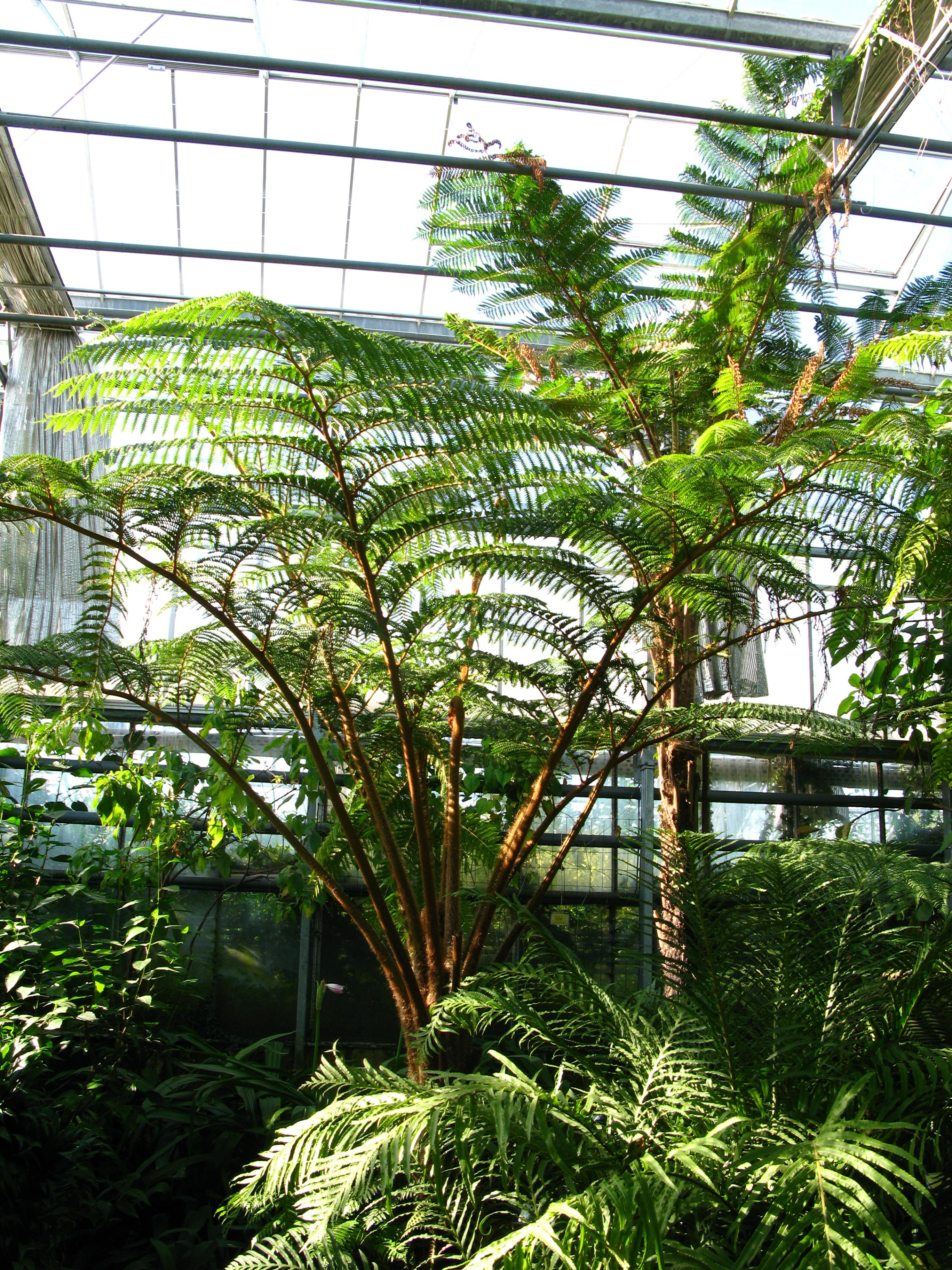 Cyathea sp. in Botanic Garden of Polish Academy of Sciences, Powsin (Poland)